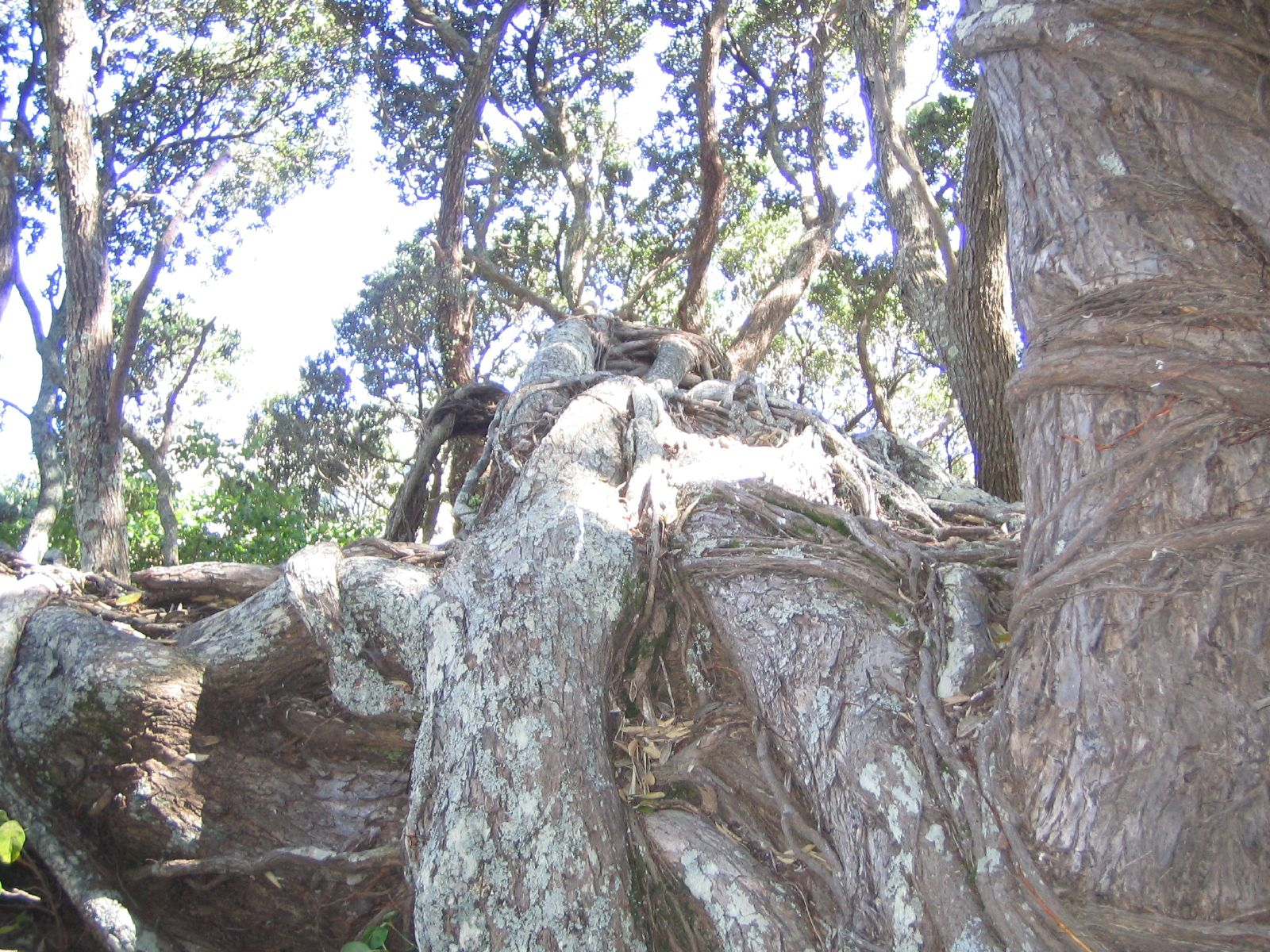 Pohutukawa tree at Te Araroa (New Zealand)